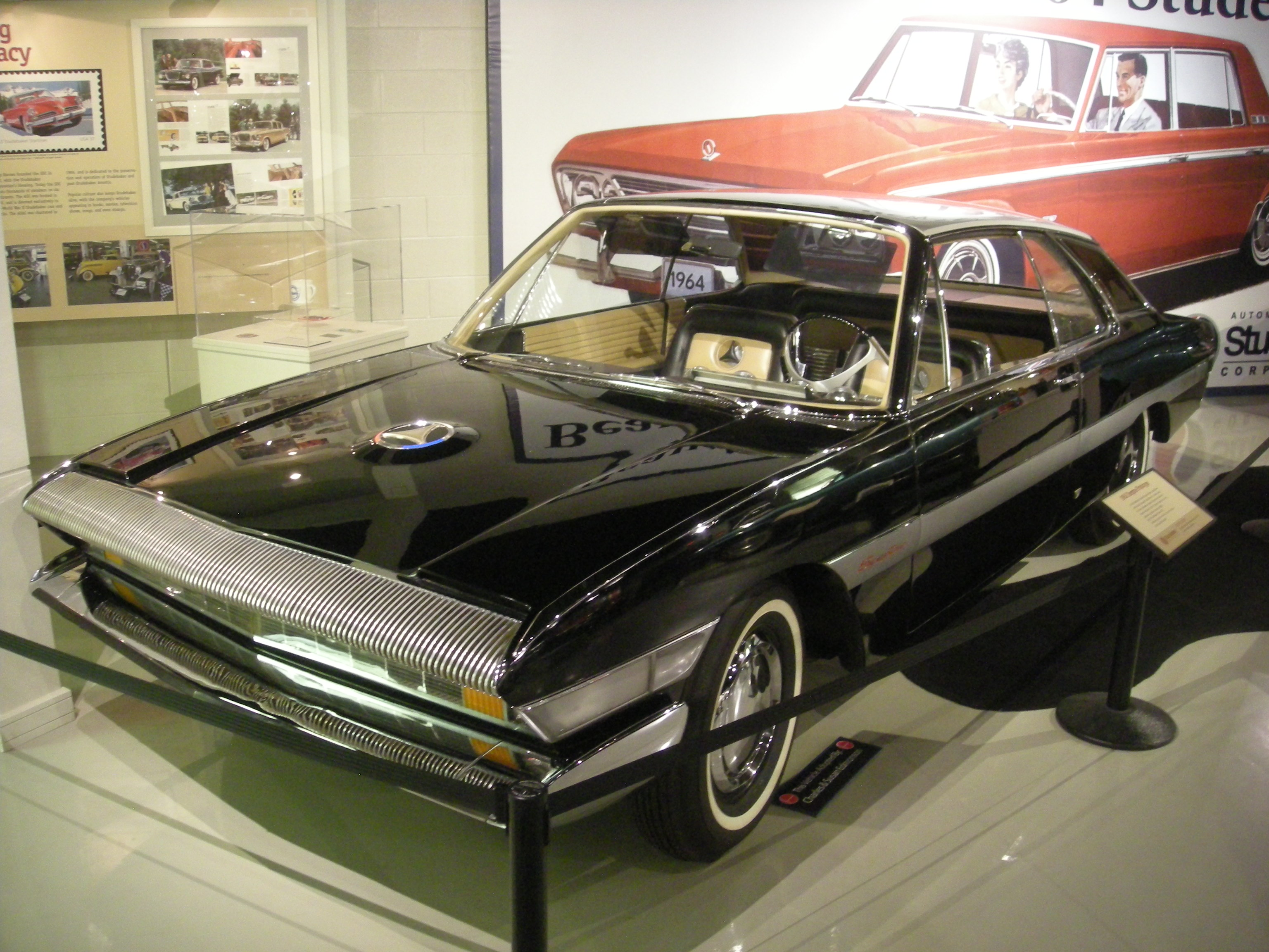 A 1962 Studebaker Sceptre Prototype at the Studebaker National Museum in South Bend, Indiana (United States).